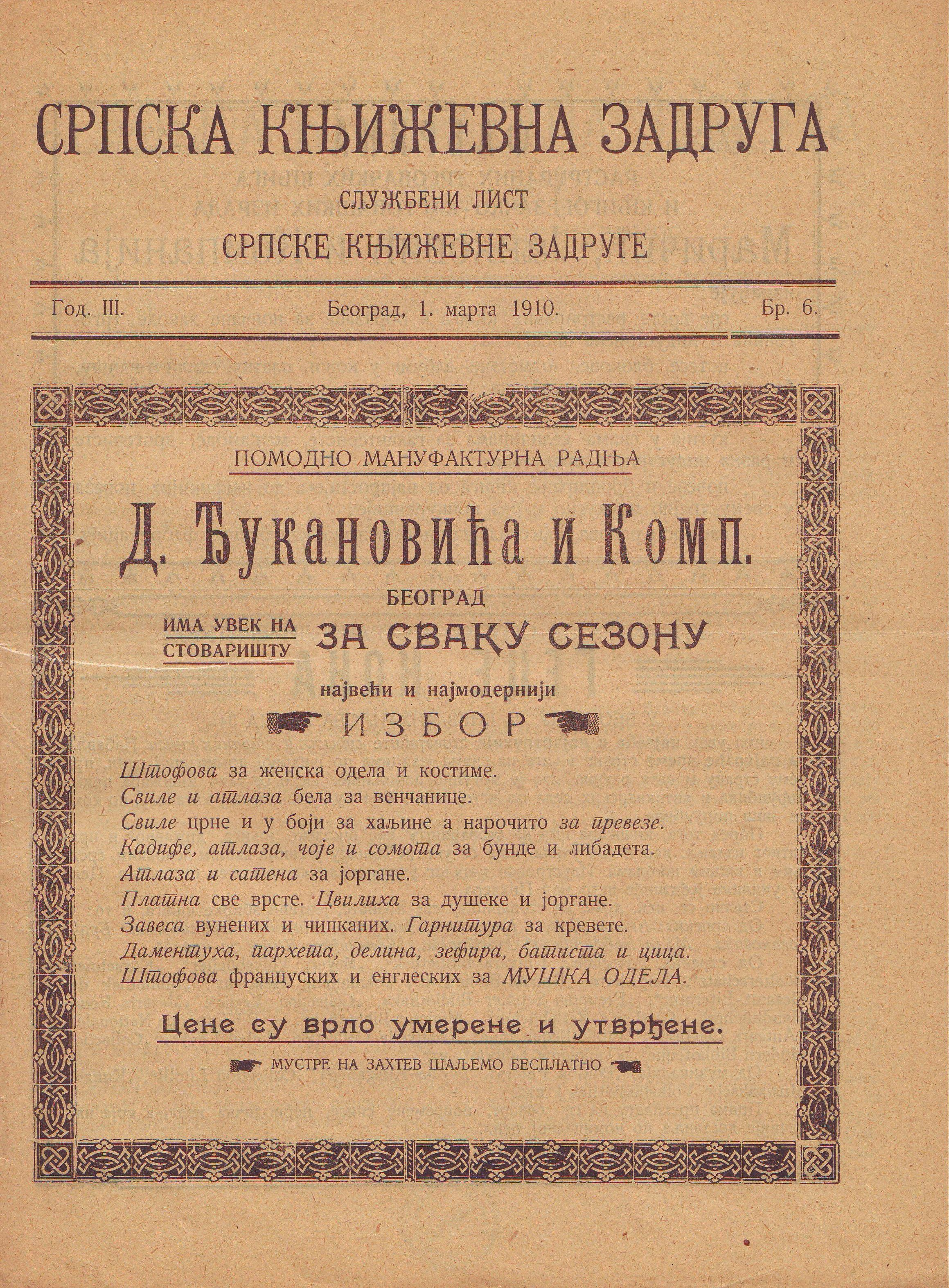 Front page of the Službeni list Srpske književne zadruge for 1 March 1910. Srpski (latinica): Naslovna strana Službenog lista Srpske književne zadruge za 1. mart 1910. godine.